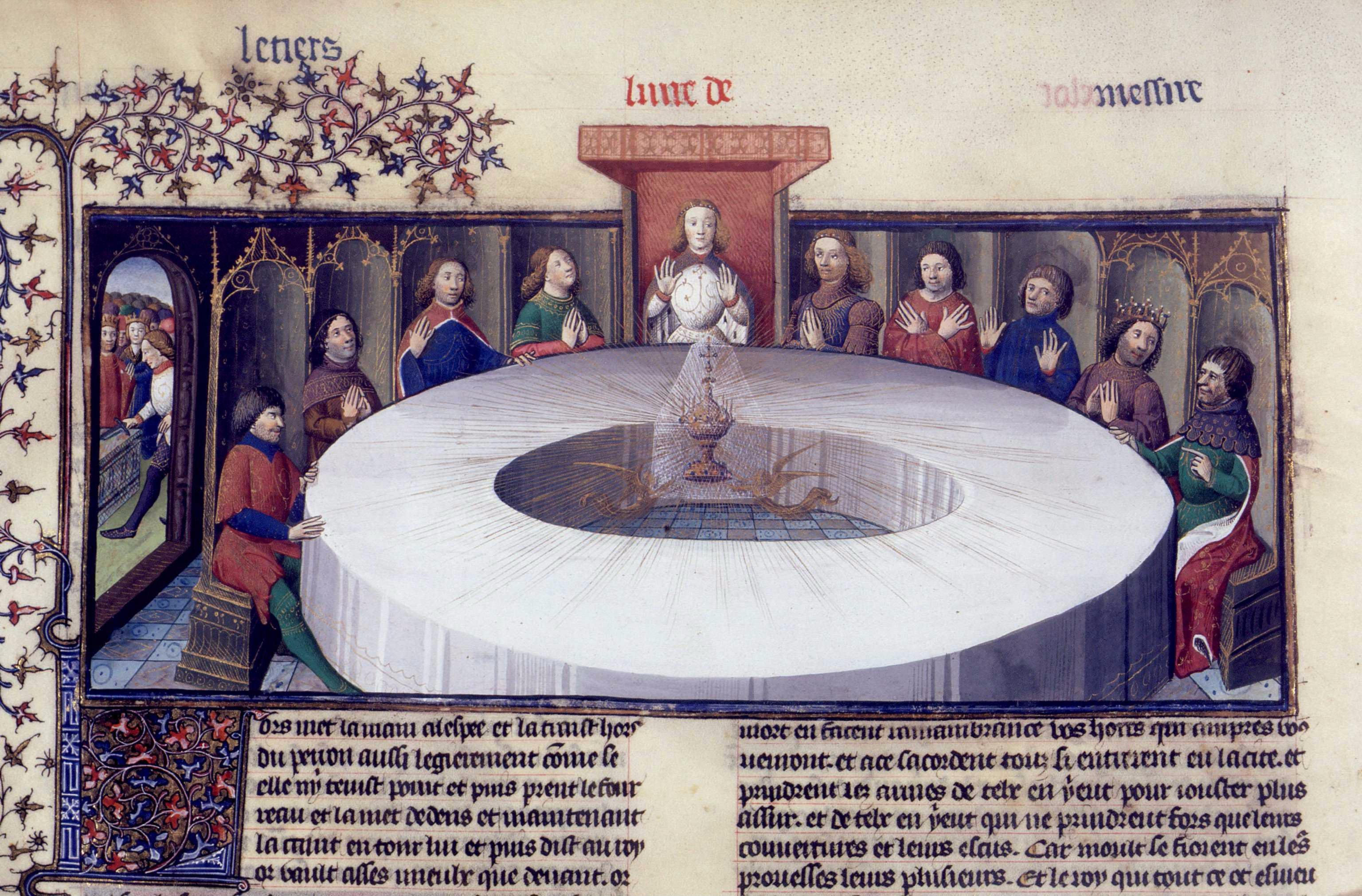 King Arthur's knights, gathered at the Round Table to celebrate Pentecost, see a vision of the Holy Grail. The Grail appears as a veiled ciborium, made of gold and decorated with jewels, held by two angels. From BnF, Manuscrits, Français 120 fol. 524v.